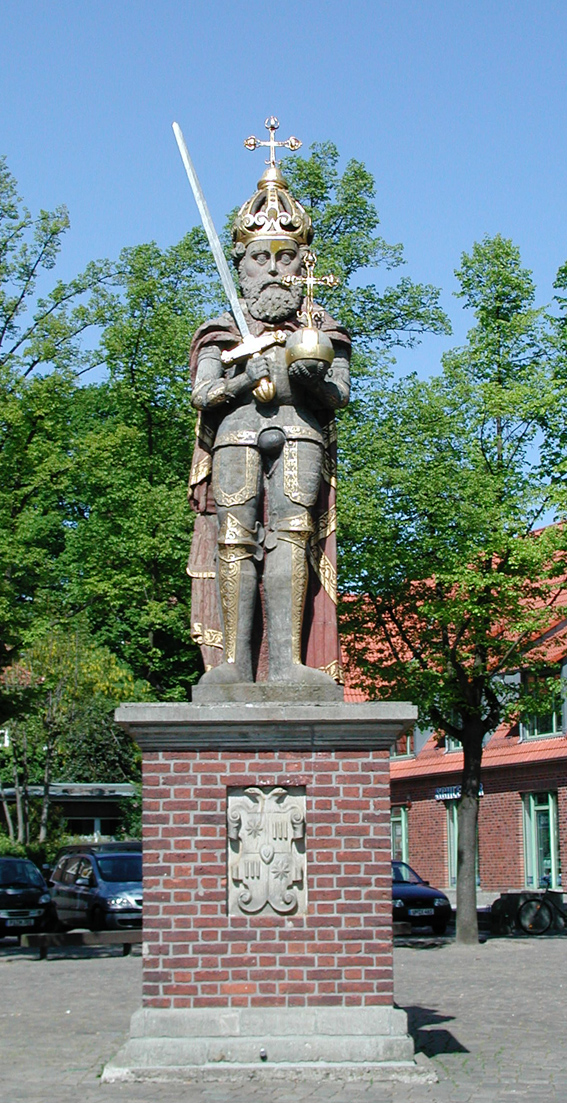 Statue of Roland in Wedel (Holstein) Schleswig-Holstein, Germany, next to Hamburg before restoration in May 2007. Cultural heritage monument.